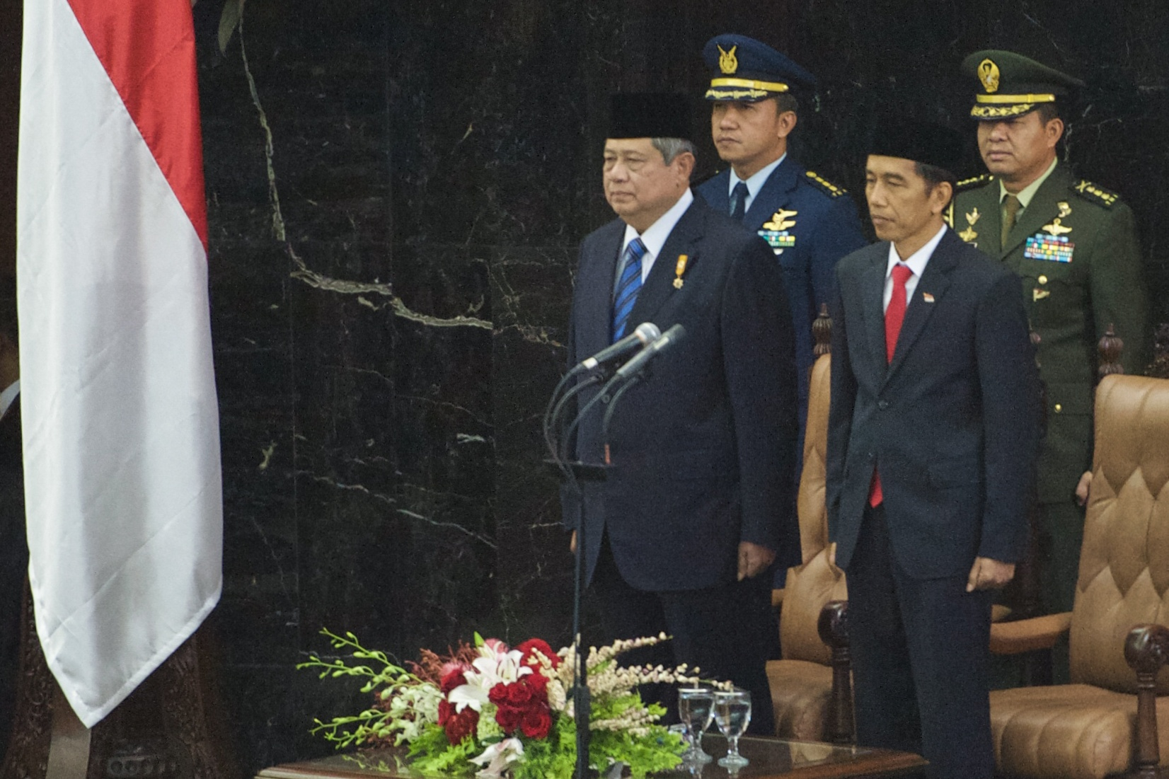 cropped from File:Jokowi-SBY.jpg